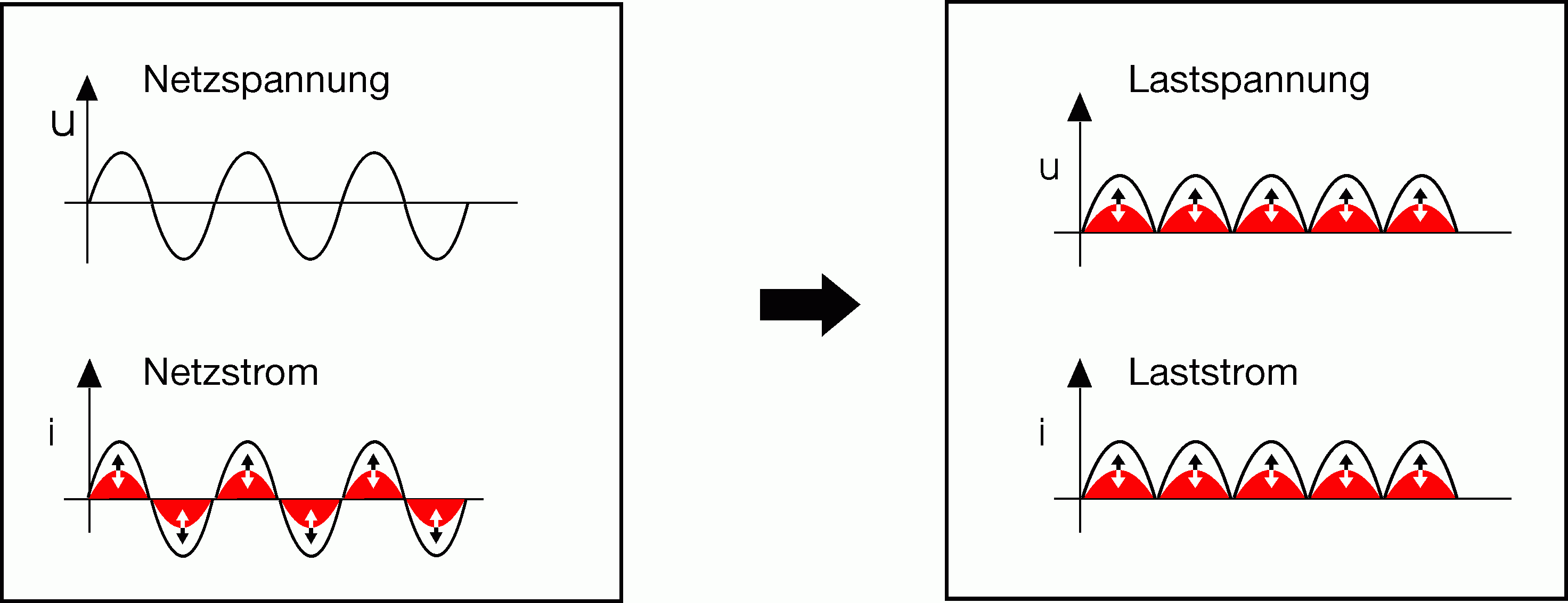 Current and voltage signals before and after rectification.